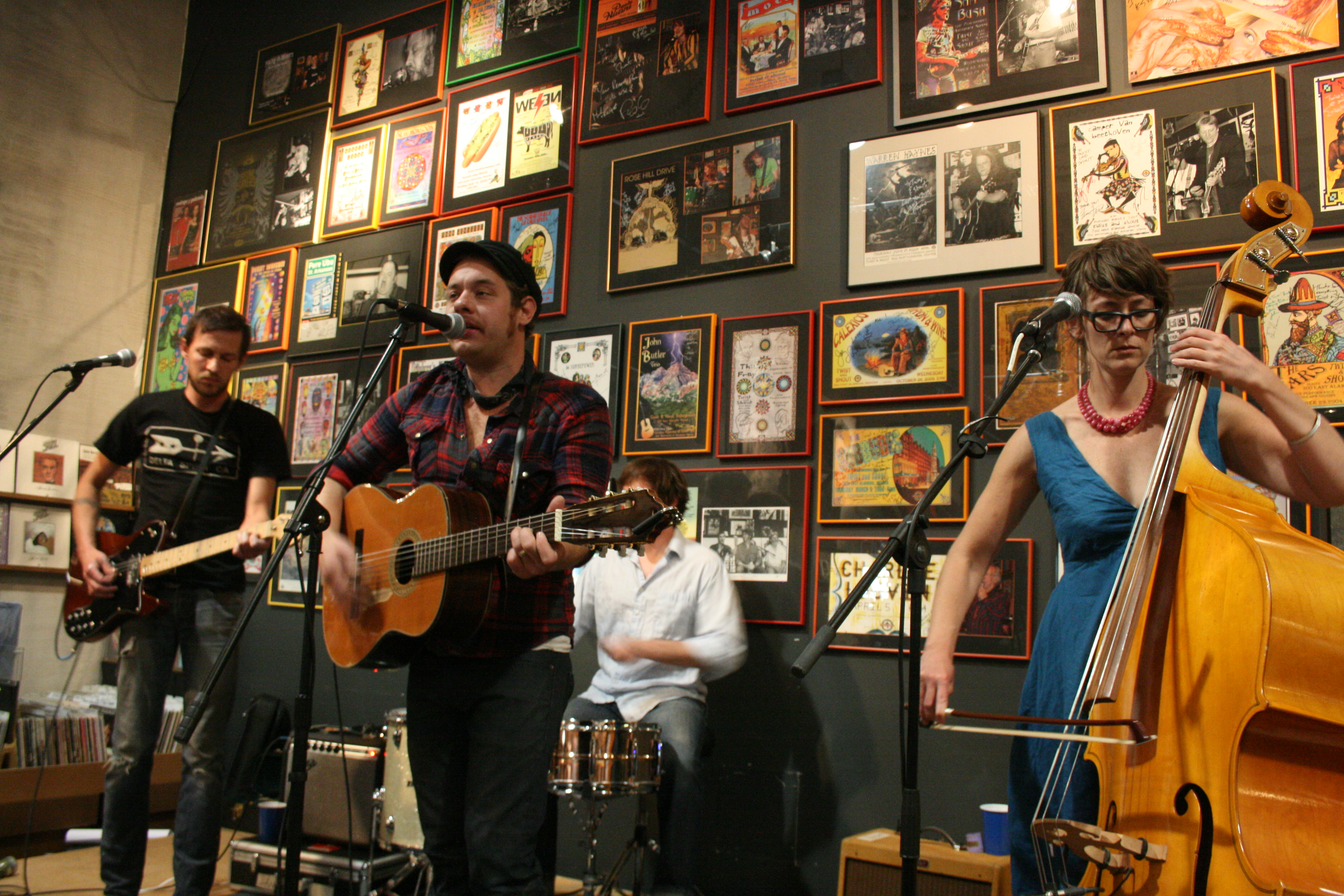 Joseph Pope, Nathaniel Rateliff and Julie Davis during an in-store performance at record shop Twist & Shout in Denver, Colorado.